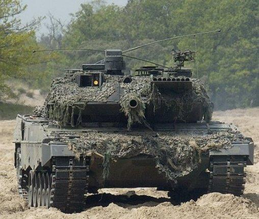 Dutch Leopard 2A6